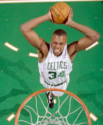 Paul Pierce 2000